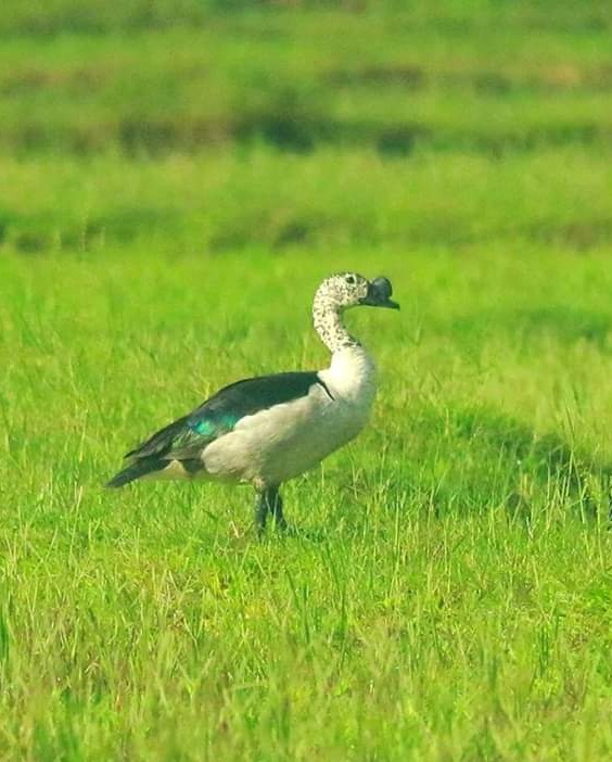 Knob billed duck